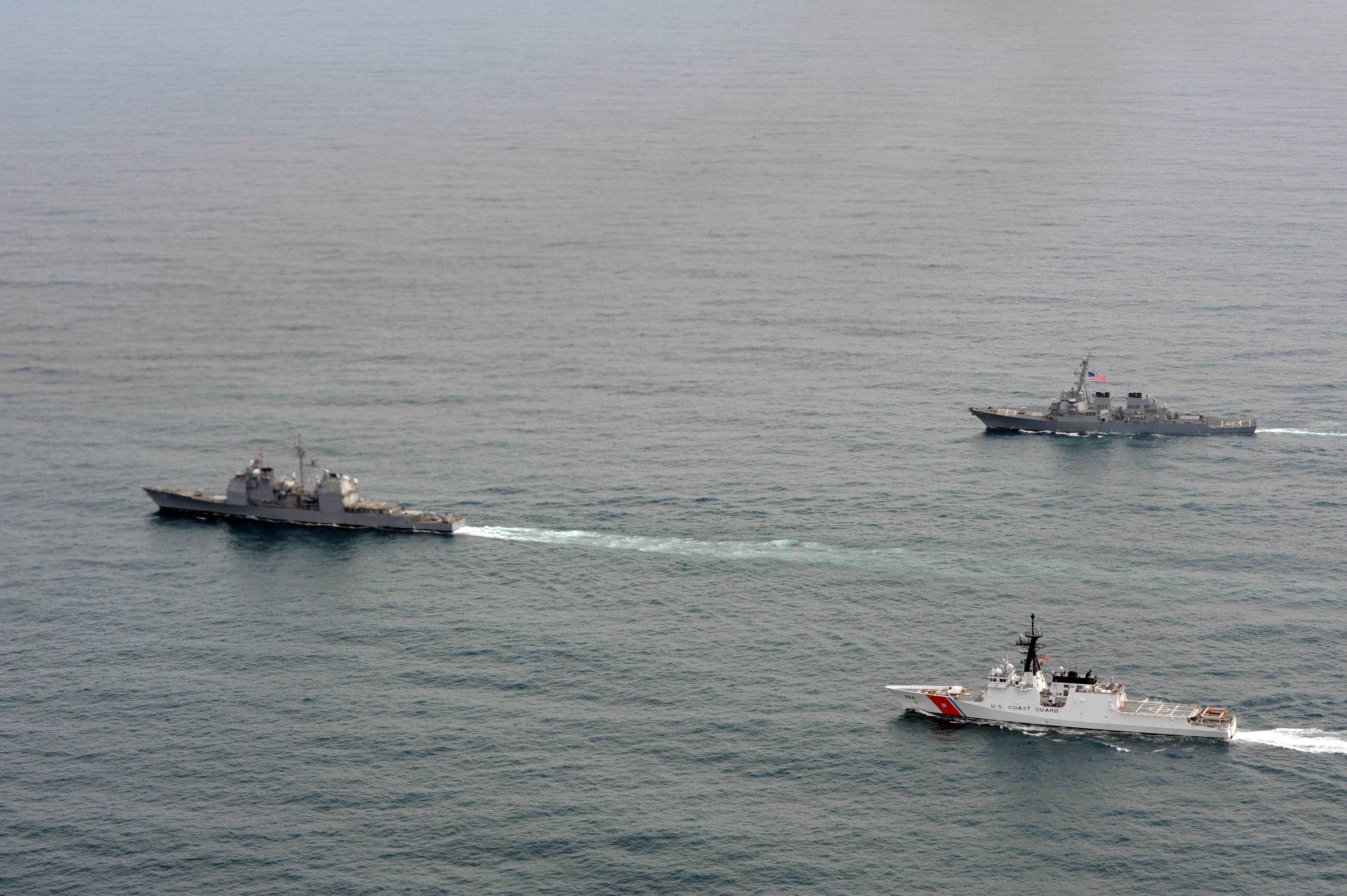 KODIAK, Alaska - The USS Lake Erie, front, a Ticonderoga-class guided missle-cruiser homeported in Pearl Harbor, Hawaii, the USS Decatur, an Arleigh Burke-class guided-missle destroyer homeported in San Diego and the Coast Guard Cutter Bertholf, a national security cutter homeported in Alameda, Calif., transit the Gulf of Alaska in formation June 17, 2011. Operation Northern Edge is being conducted in the Gulf of Alaska as several members of the nation's armed services participate in Alaska's largest military exercise. U.S. Coast Guard photo by Petty Officer 3rd Class Charly Hengen.